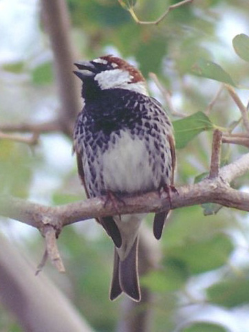 Spanish Sparrow